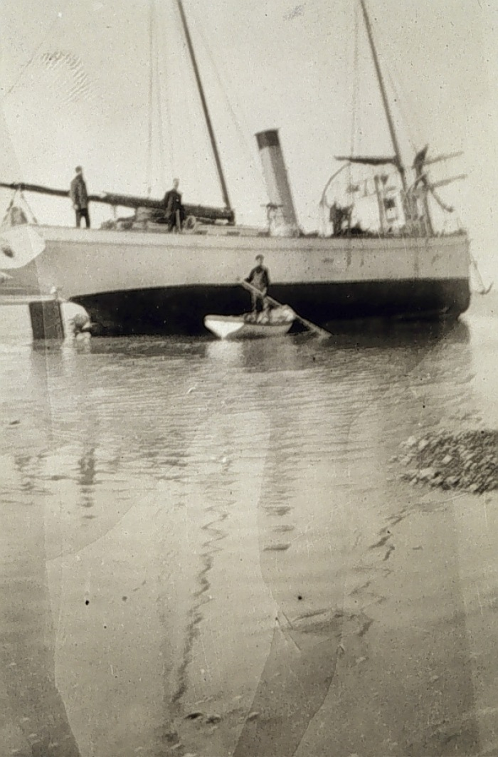 United States Coast and Geodetic Survey survey ship USC&GS Yukon aground on the tidal flats of the Kasilof River Bar in the Territory of Alaska during low tide.